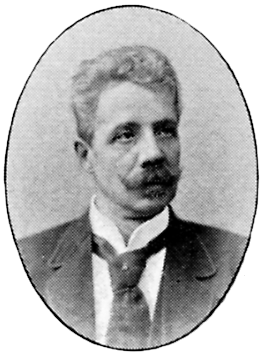 Image scanned from the book "Svenskt Porträttgalleri XX - Arkitekter, Bildhuggare, Målare m.fl. " ("Swedish Portrait Gallery XX - Architects, Sculptors, Painters, ") published 1901